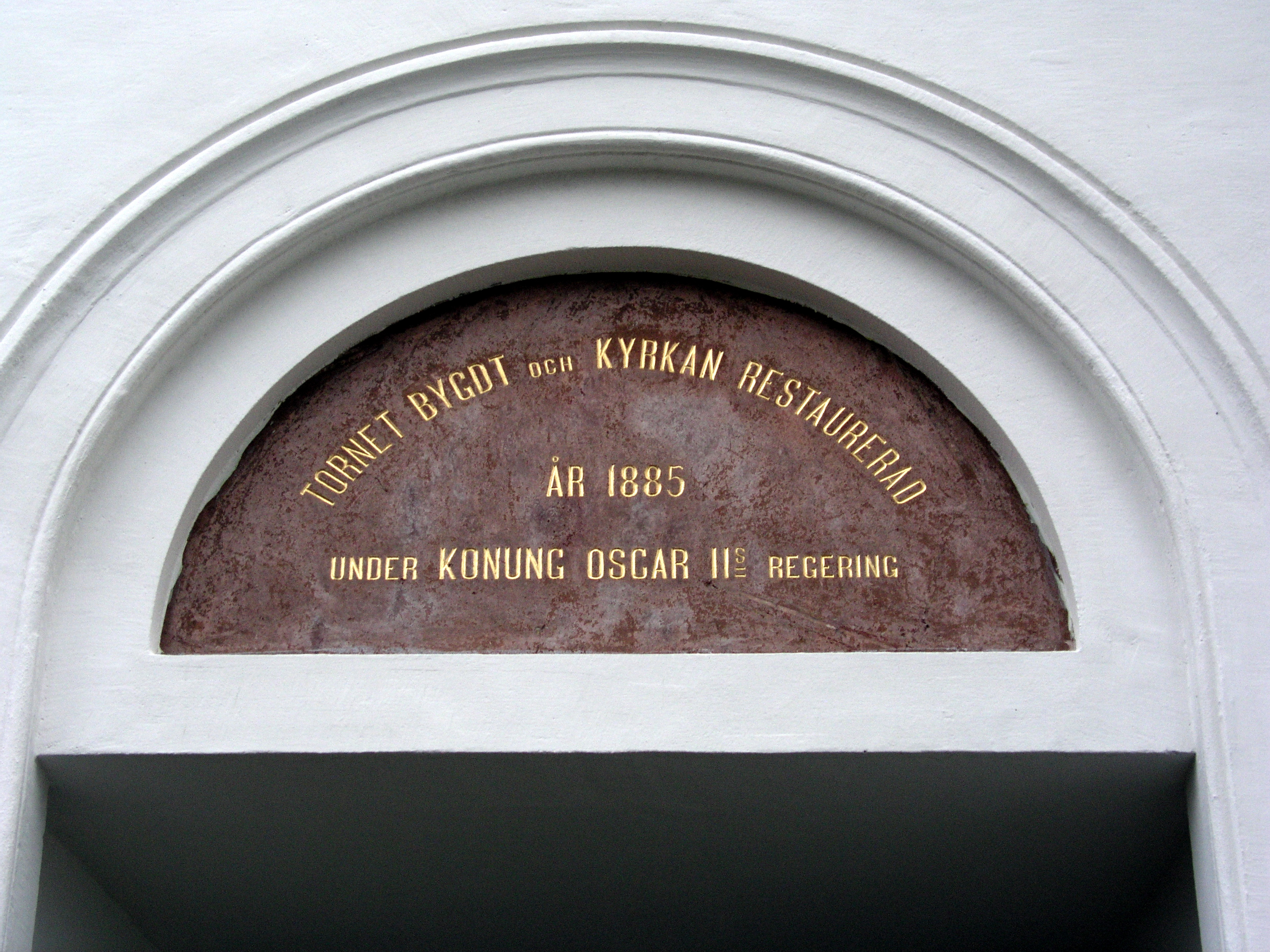 Östra Hargs kyrka, Diocese of Linköping, Linköpings kommun. Portal inscription. The picture was taken the 4th of December 2005 by Håkan Svensson (Xauxa).